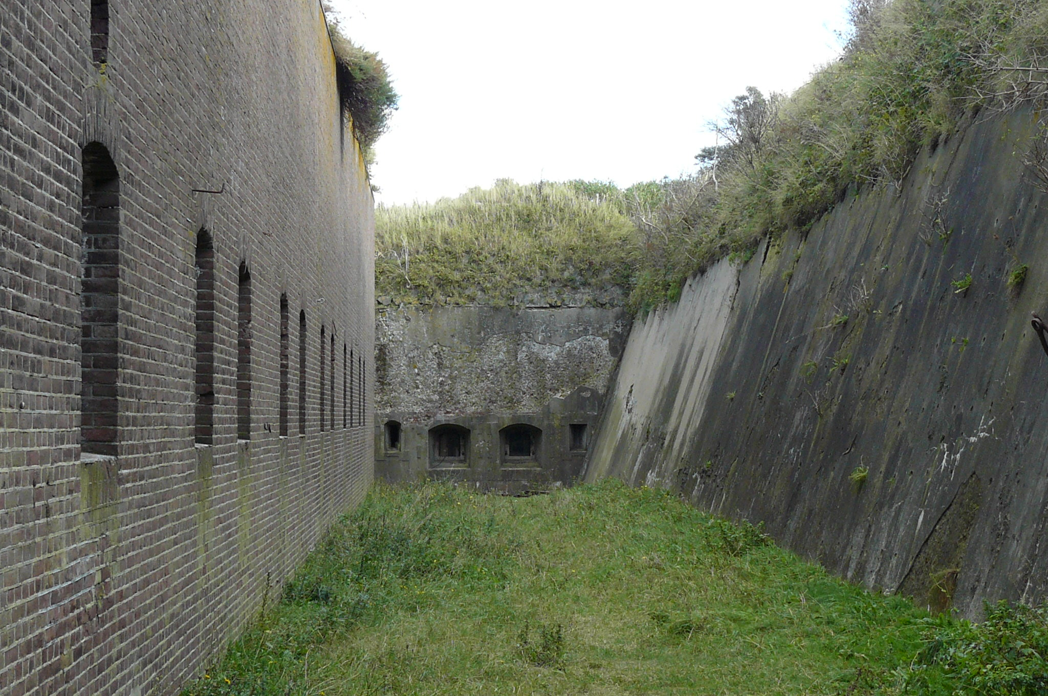 Part of the dry moat surrounding the Fort bij IJmuiden. This is the southern part with the fort on the left. Picture is taken to the east.